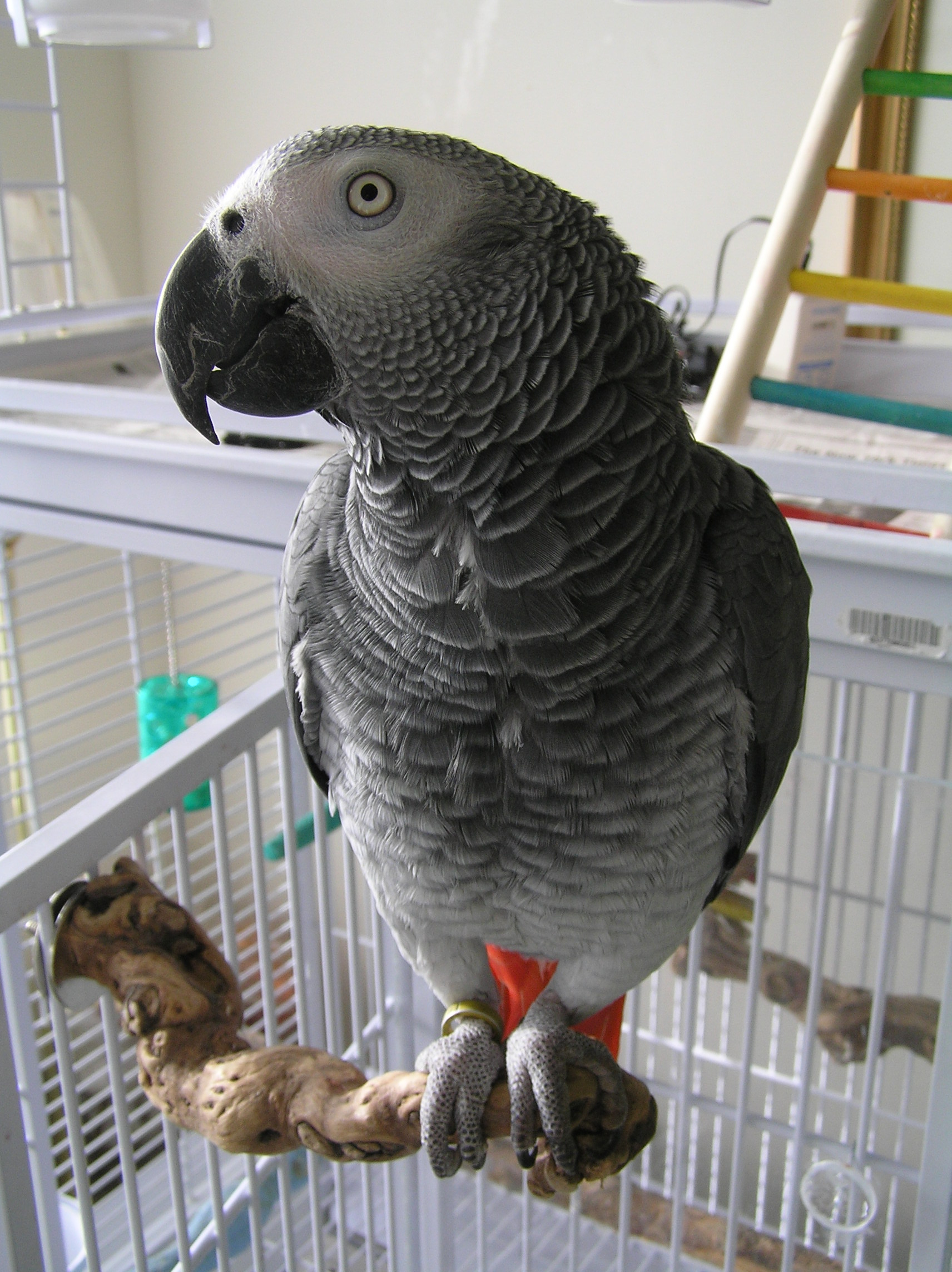 Cinderella, a Congo African Grey Parrot, picture taken 3/7/2006, New York City